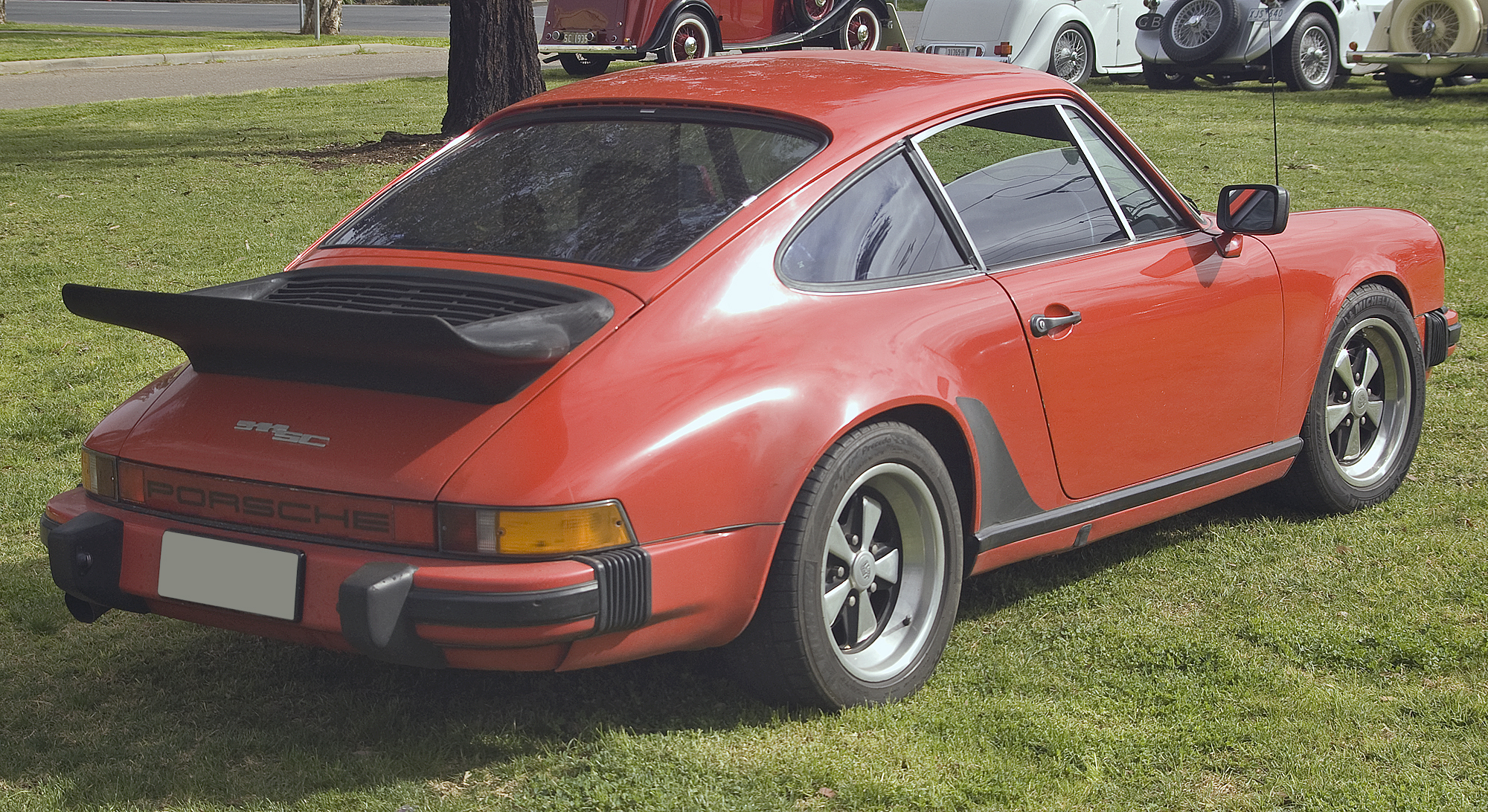 1978–1983 Porsche 911SC.